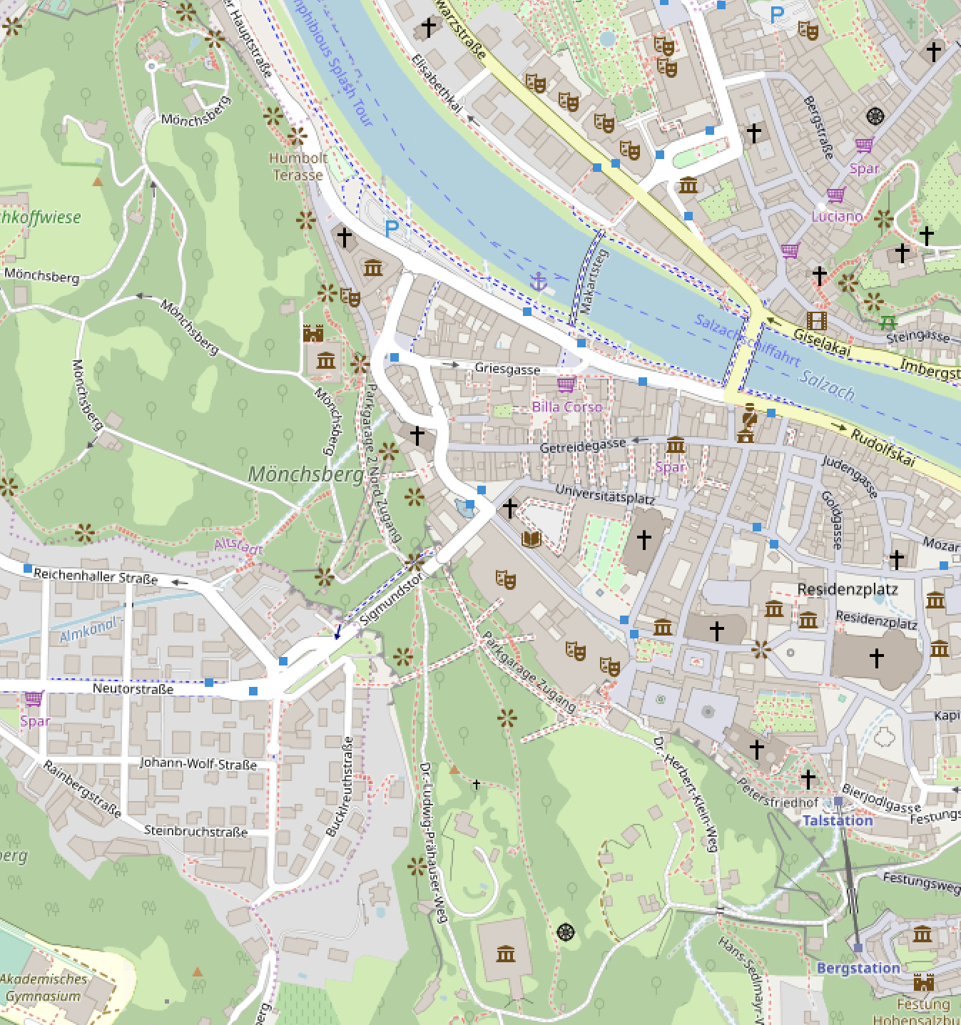 Street map of Salzburg showing the Sigurdstor cutting through the Mönschberg